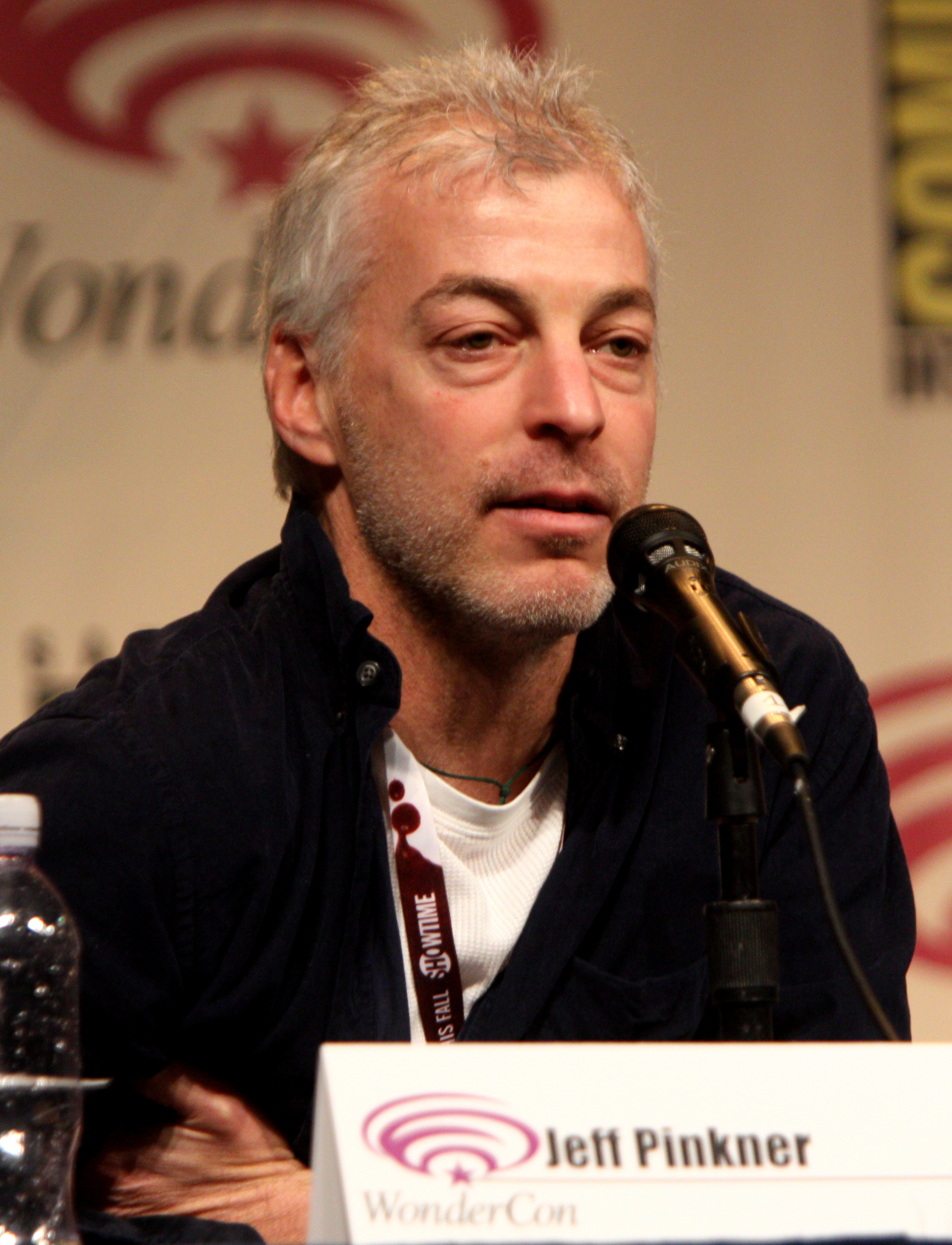 Jeff Pinkner speaking at Wondercon 2012 in Anaheim, California on March 18, 2012.